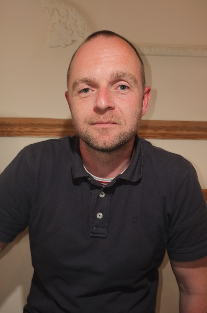 Craig Atkinson (Bristol Photobook Festival, 2014)